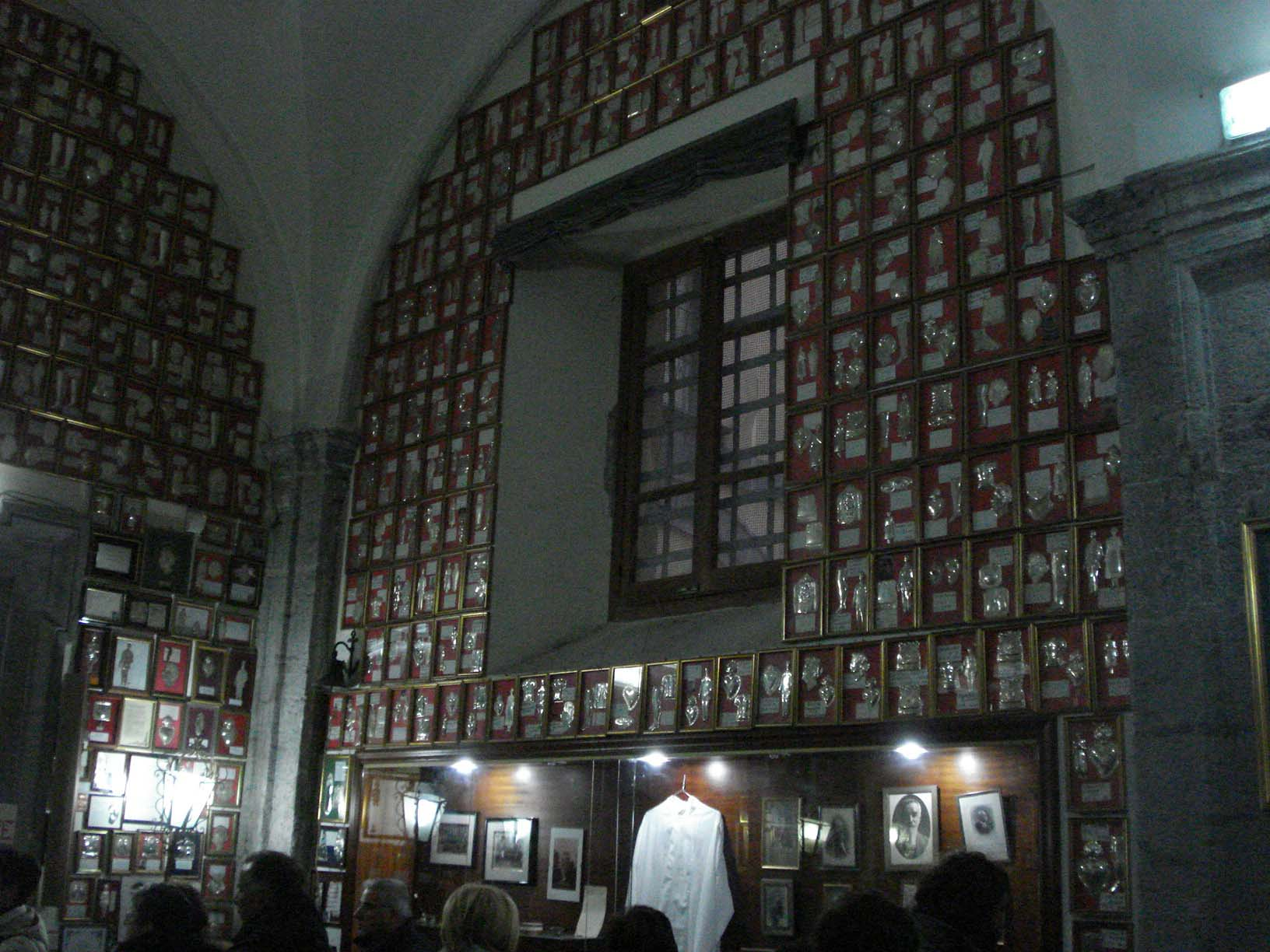 Giuseppe Moscati's memorial hall